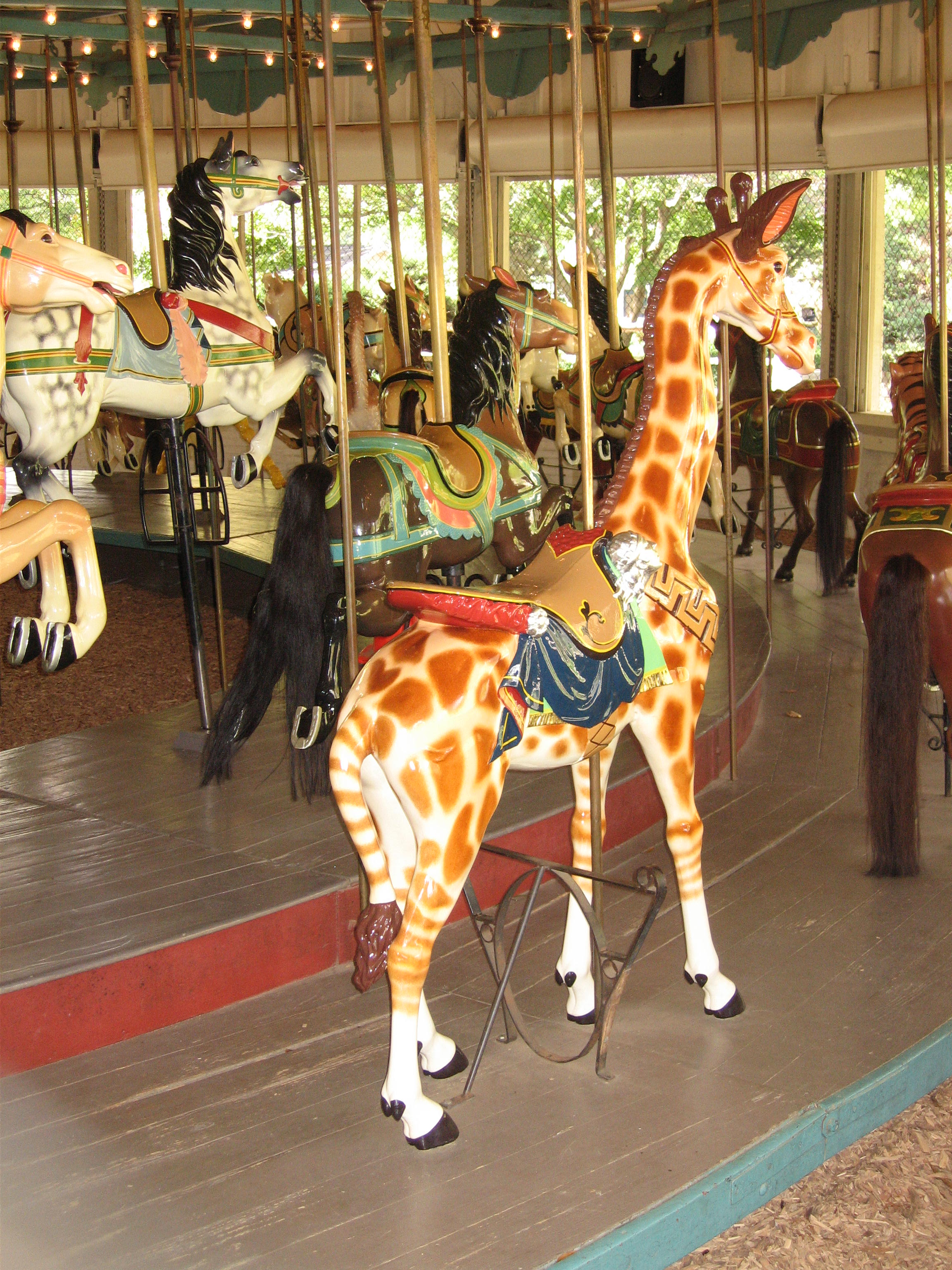 Alexandra Fox